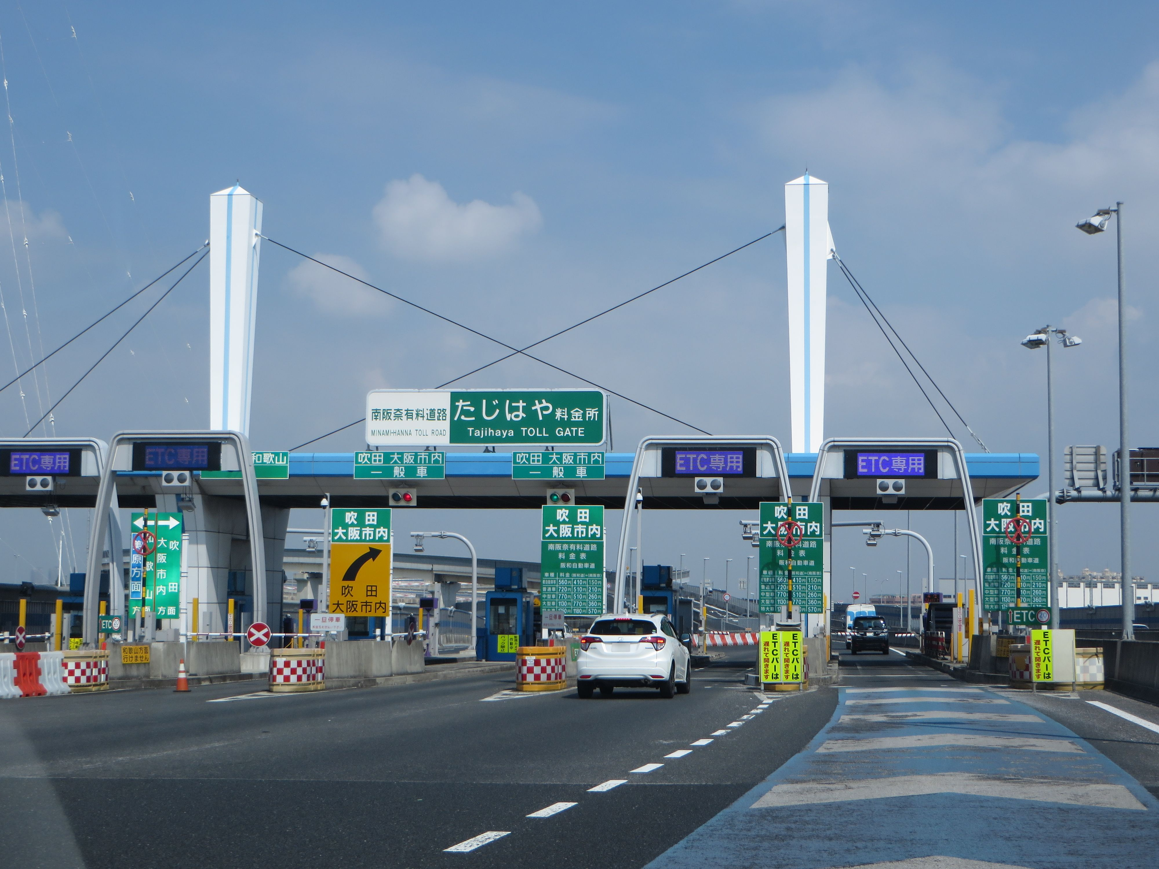 Tajihaya Toll Gate